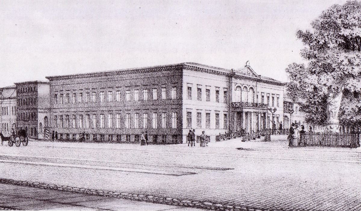 The Palais Prinz karl (or Ordenspalais) at Wilhelmstraße and Wilhelmplatz in Berlin, showing the building with a neoclassicist outlook after reconstruction by Friedrich August Stüler; lithography by an unknown artist